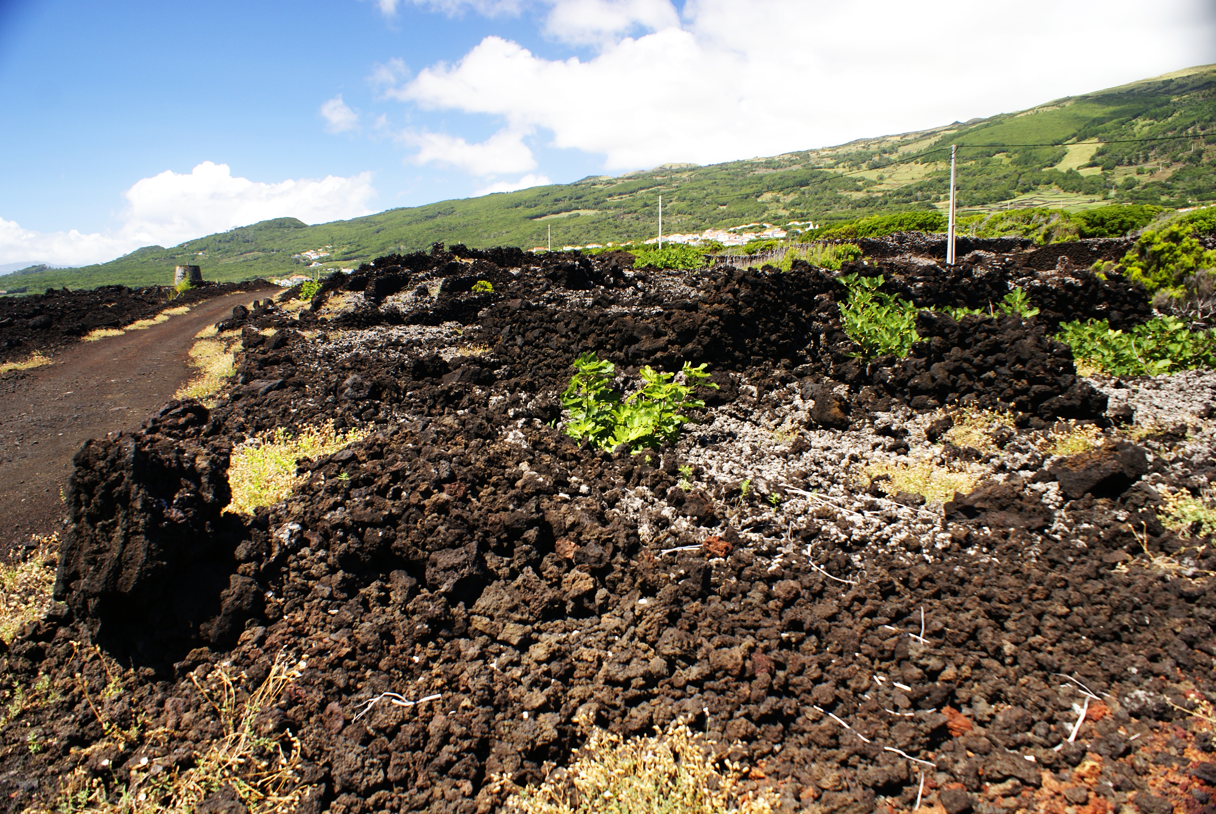 São Caetano, corrais de vinhas, São Mateus, Madalena, ilha do Pico, Açores, Portugal